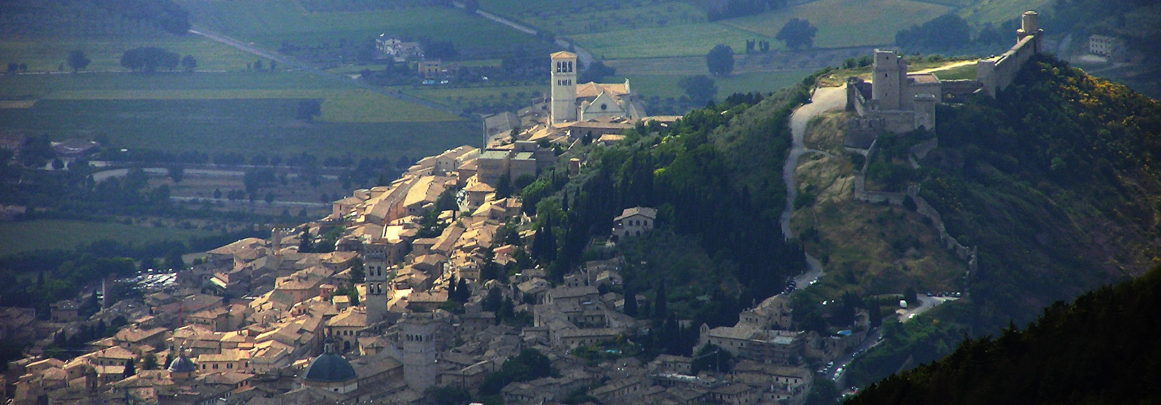 The pilgrim village Assisi in Italy, seen from Mt.Subasio